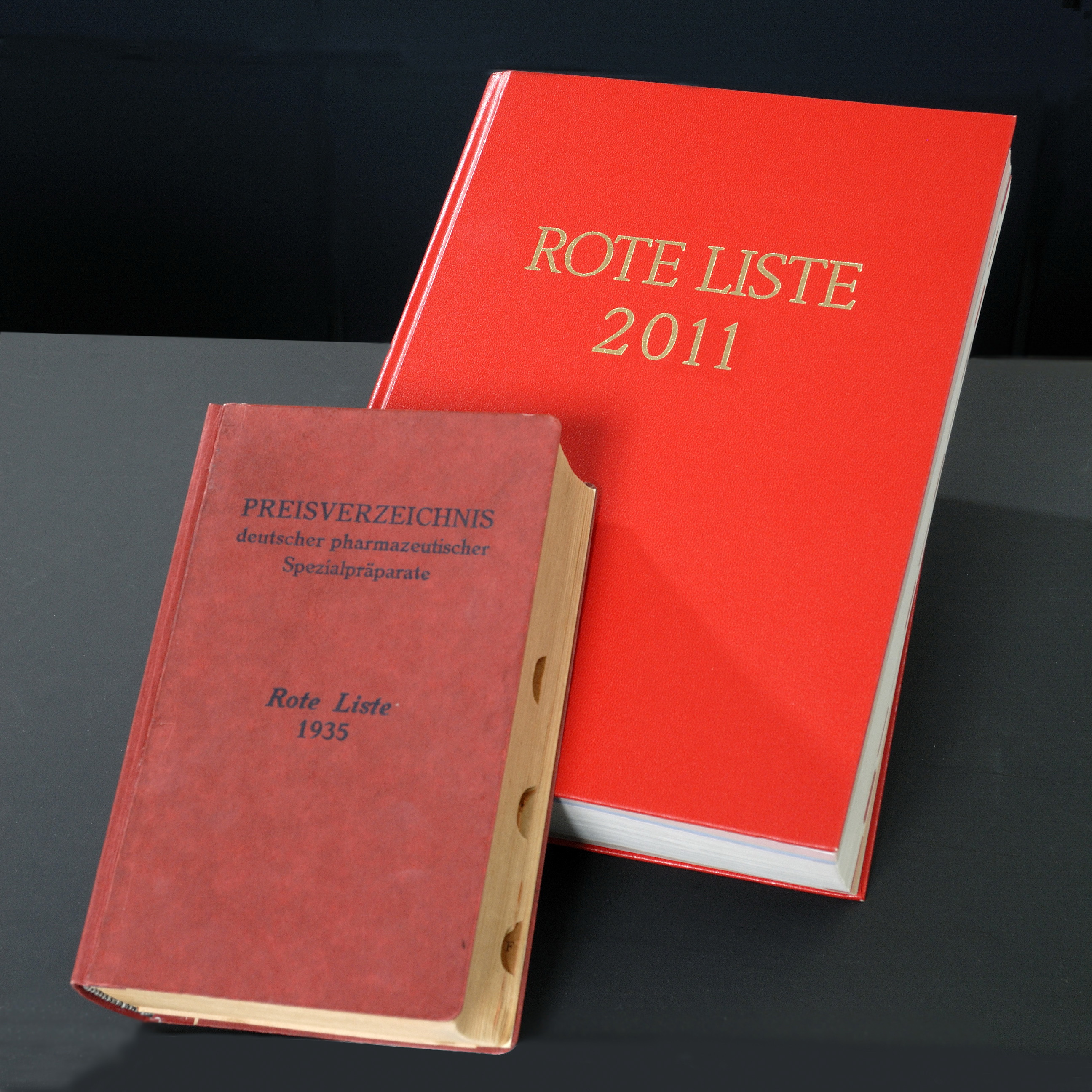 Rote Listen 2011 und 1935